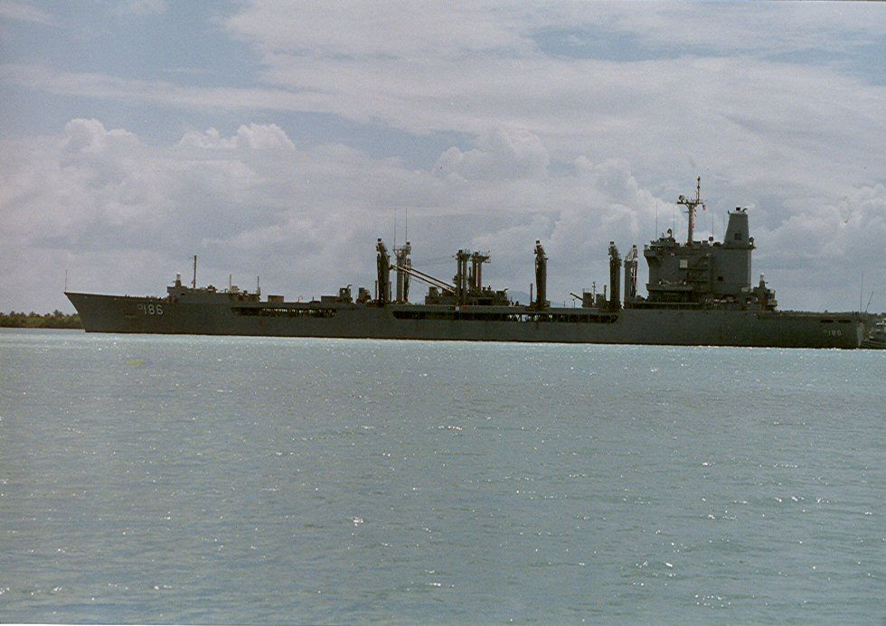 The U.S. Navy fleet oiler USS Platte (AO-186) at Puerto Rico in 1994. Note that the ship had been "jumboized", as a 35.7 m long section was added 1990-1992.